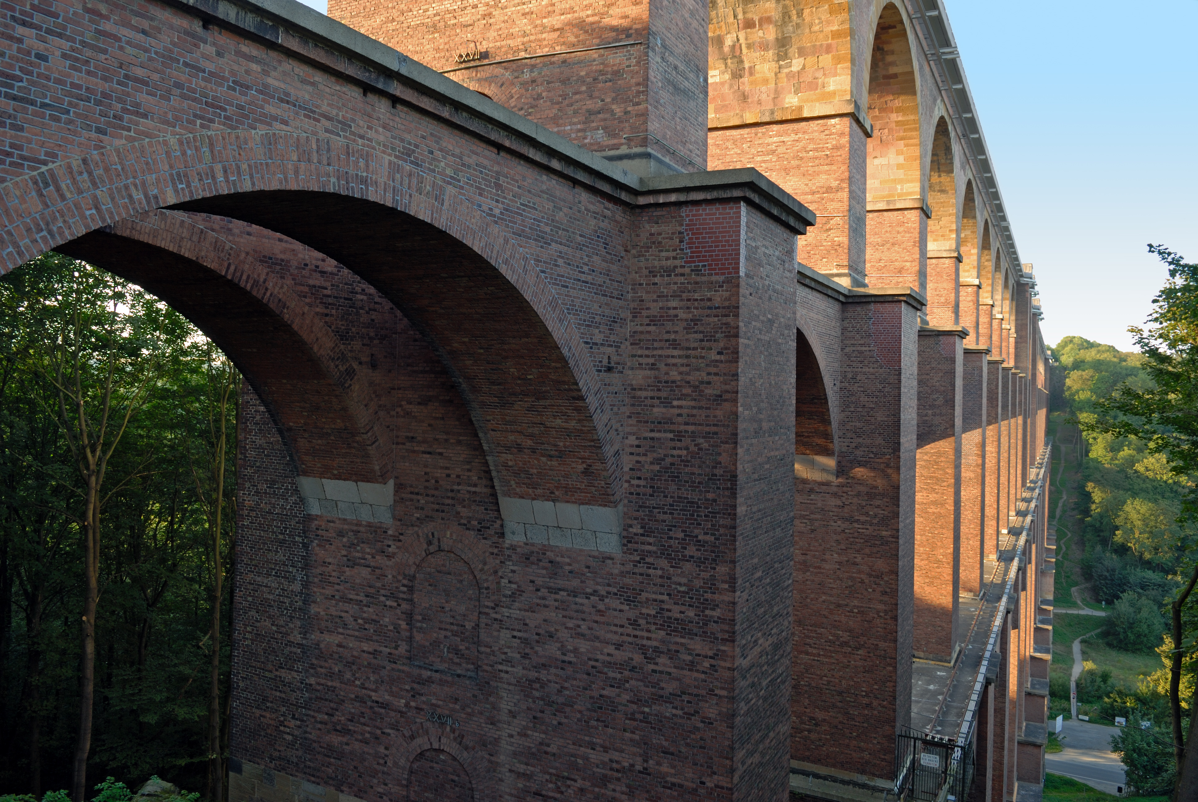 This image shows the Göltzschtalbrücke ("Goeltzsch valley bridge") between Netzschkau and Mylau in Germany. The Göltzschtalbrücke is the world's largest brick bridge.